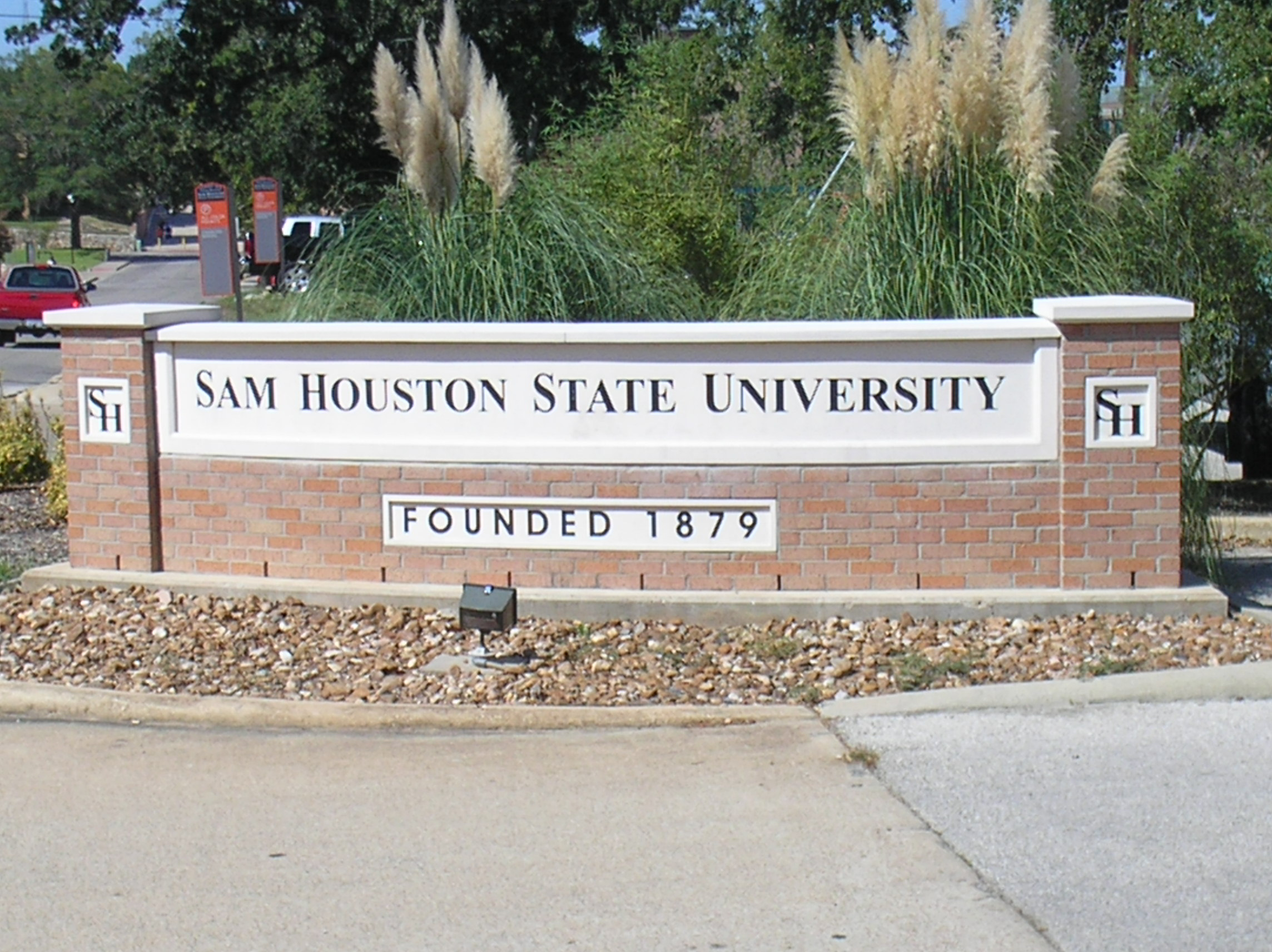 Entrance sign to Sam Houston State University